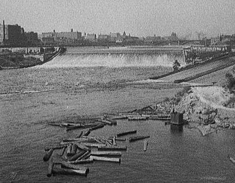 The Falls of St Anthony, MN. 1908 Library of Congress, Prints and Photographs Division, Detroit Publishing Co. Collection.